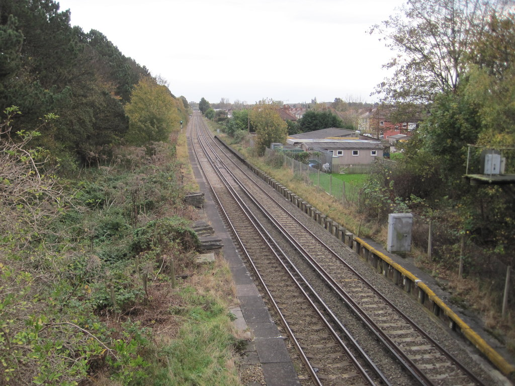 Upton-by-Chester railway station (site), CheshireOpened in 1939 by the London Midland and Scottish Railway on the line from Chester to Birkenhead, this station closed in 1984. View south towards Bache and Chester. This station was replaced by Bache, c.700m south and just visible in the distance - see SJ4068 : Bache railway station, Cheshire.